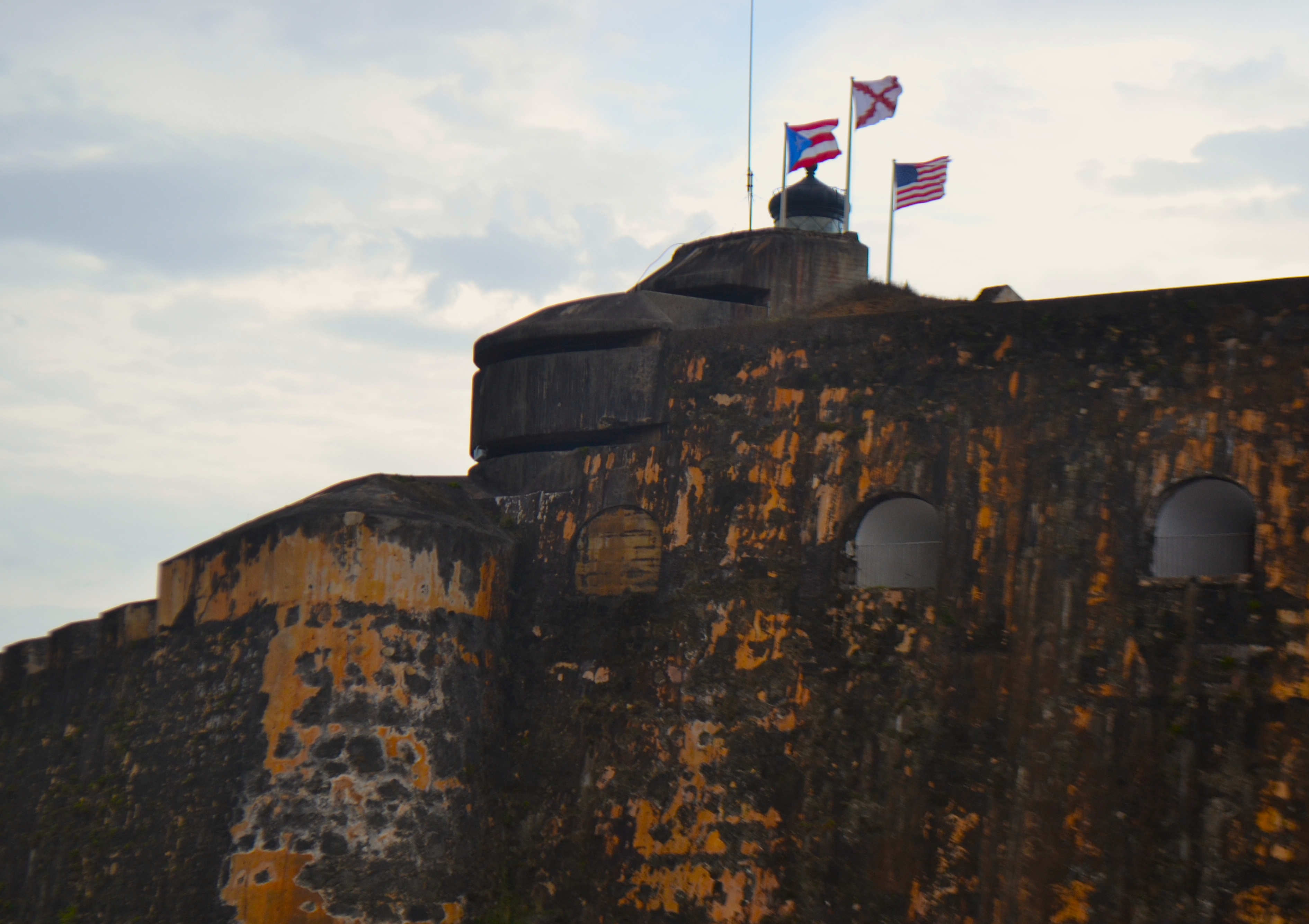 Modification to the Spaniard fortifcation in San Juan by US military during WW2